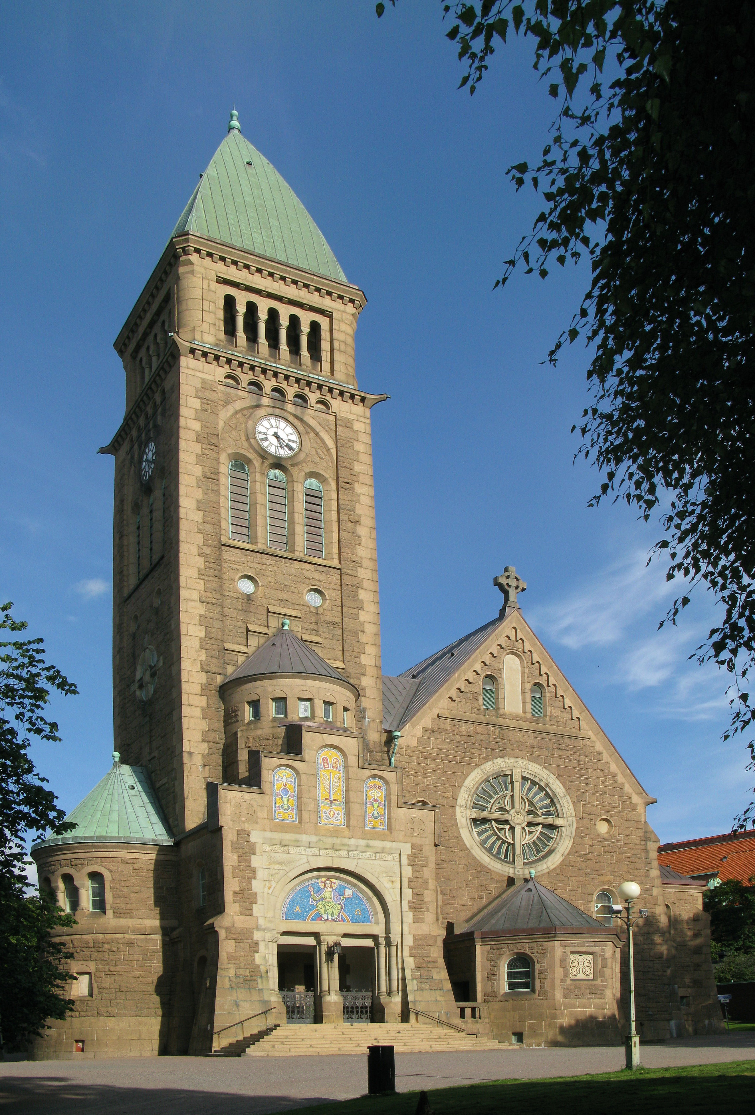 Vasa-Church in Göteborg (Sweden)